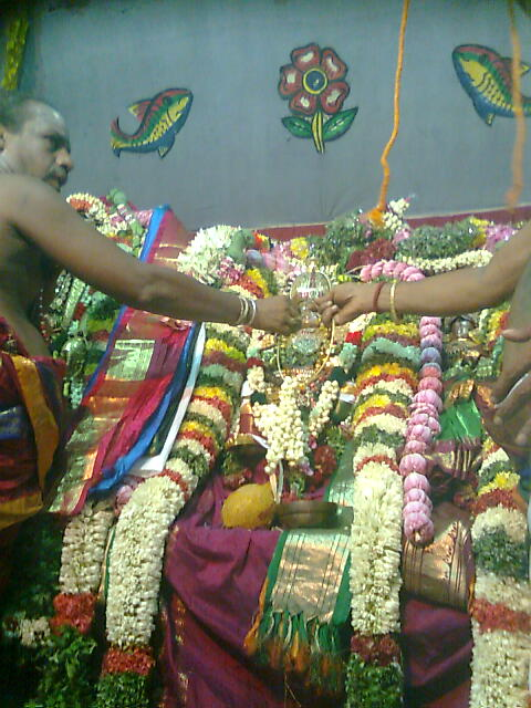 Thirukalyanam